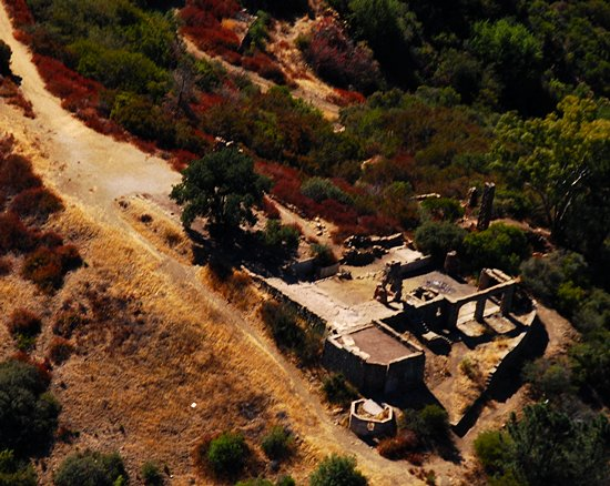 Knapp's Castle ruins — in the Santa Ynez Mountains, Los Padres National Forest, Santa Barbara County, California.